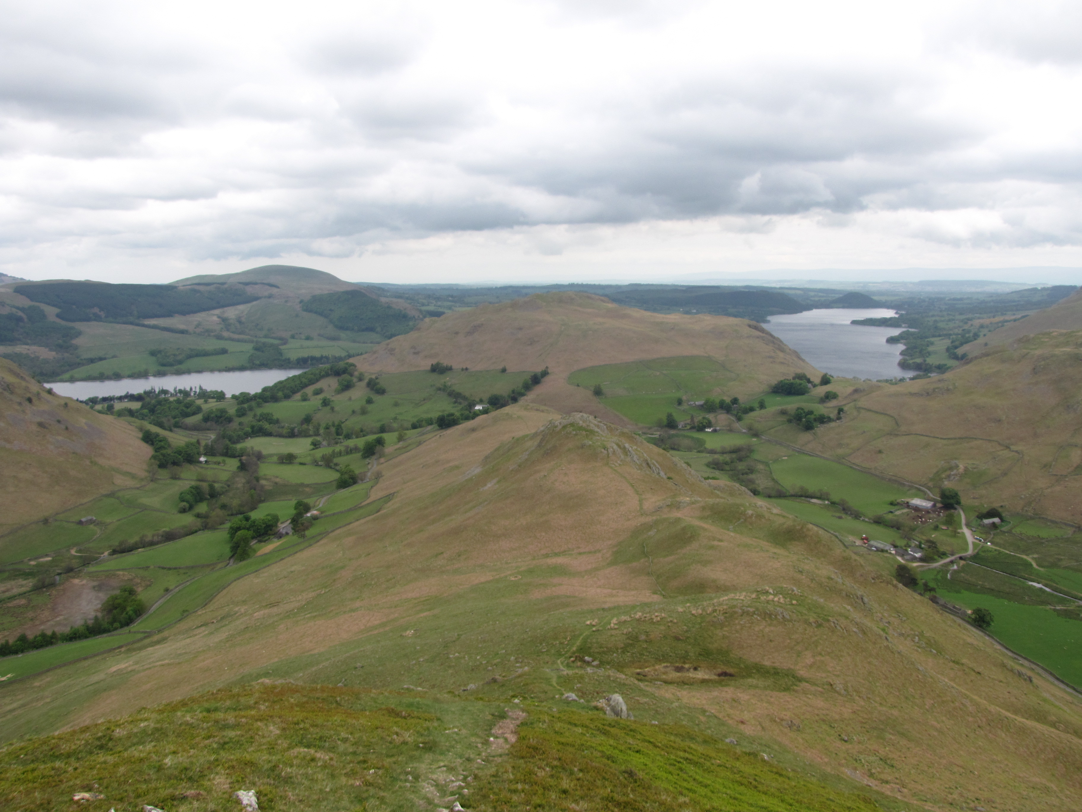 Looking north from Beda Fell in the English Lake District towards Hallin Fell and Ullswater.